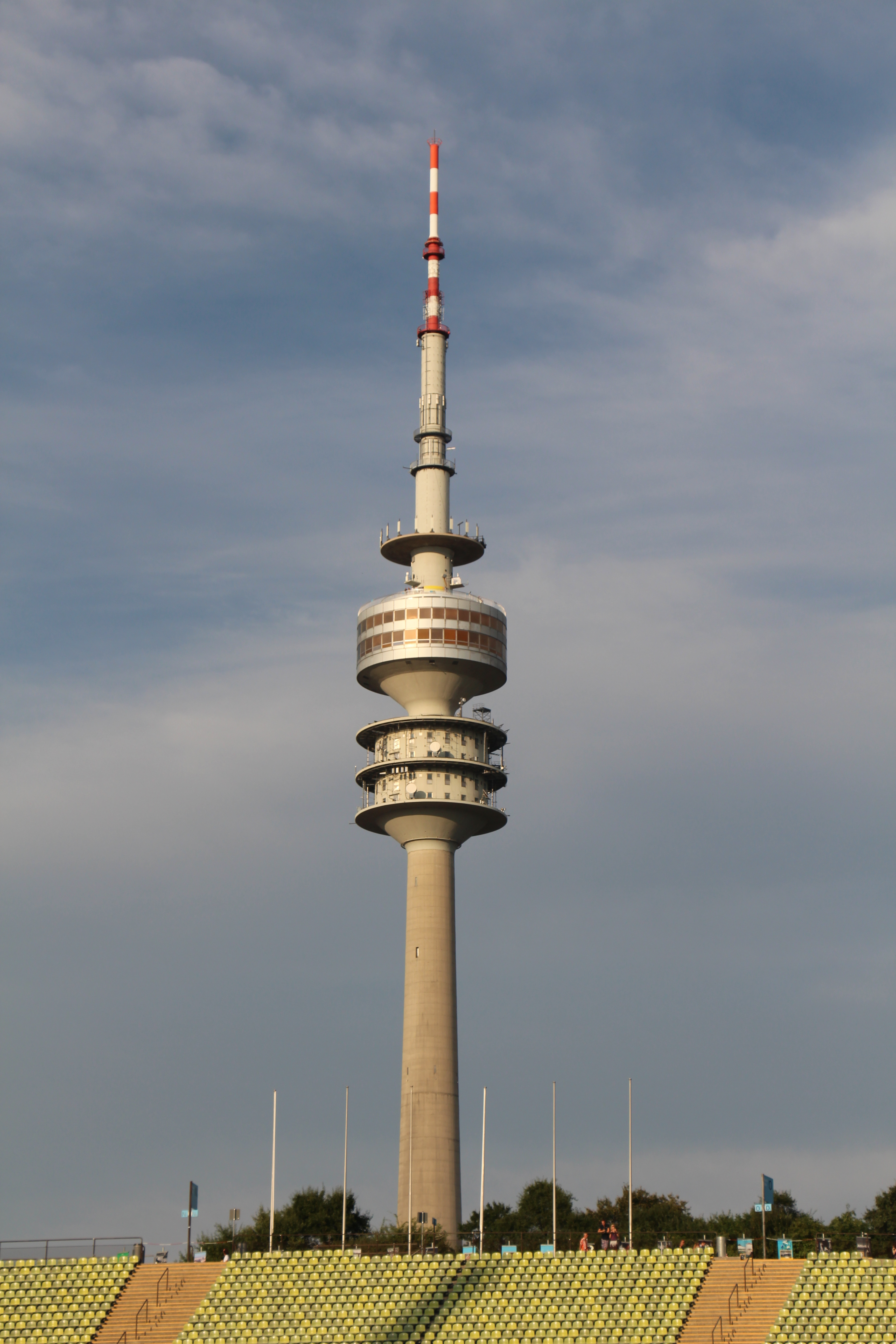 Olympiaturm in München